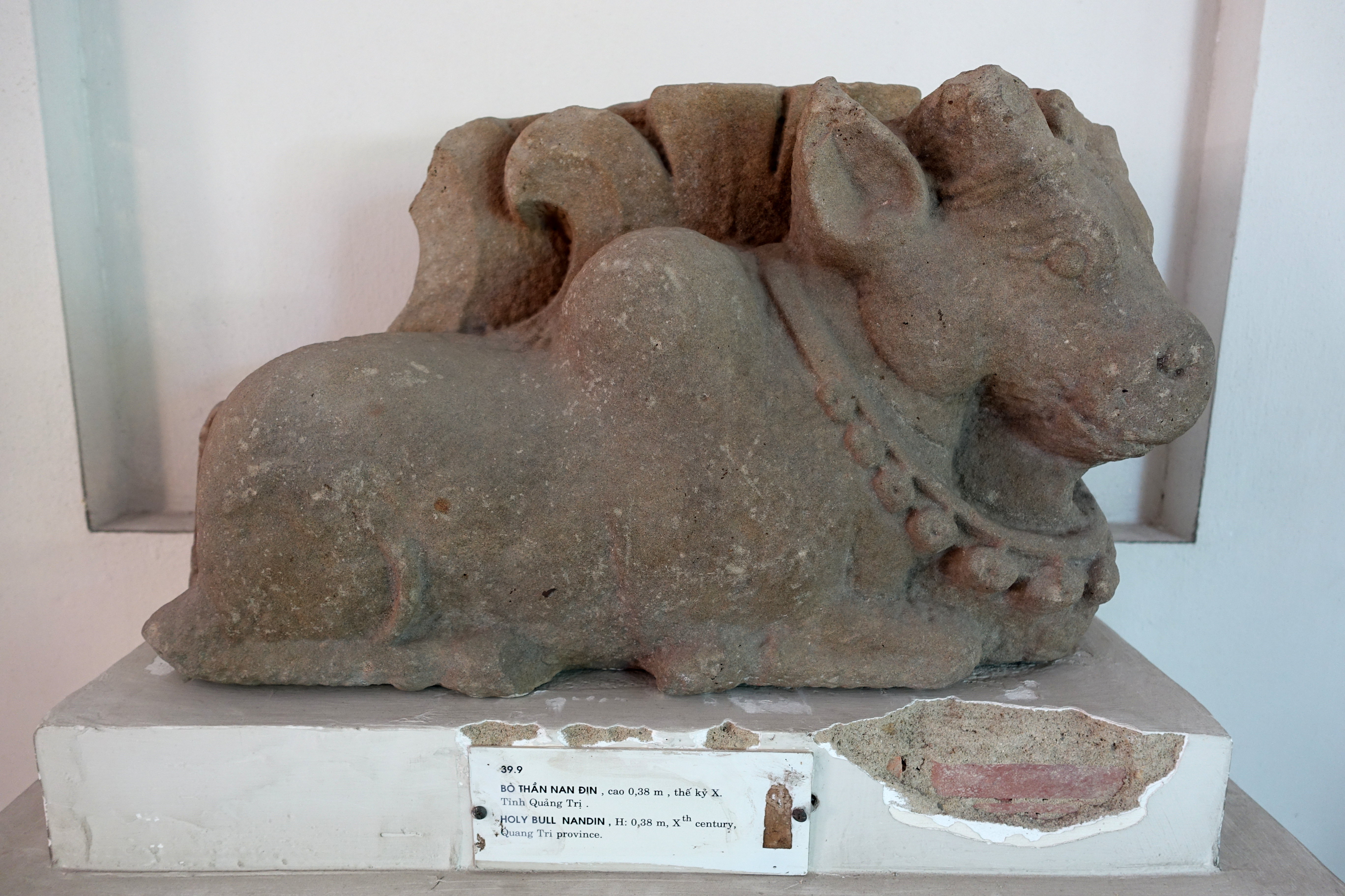 Cham sculpture at the Museum of Cham Sculpture, Da Nang, Vietnam. This artwork is in the public domain because the artist died more than 70 years ago.